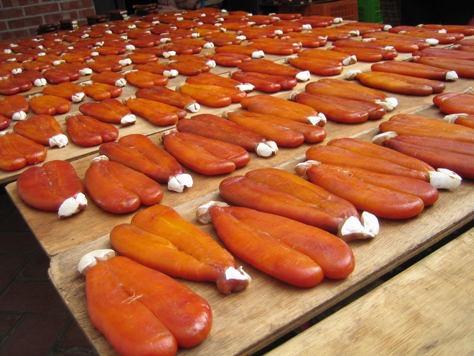 This is the famous mullet roe from Taiwan. They are just fish roe that has been dehydrated and pickled for people to enjoy on the table. they are quite expensive yet tasty